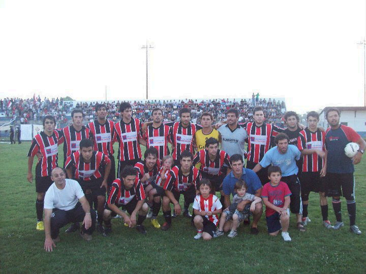 Atlético-Defensores, a football team from Ayacucho, Buenos Aires, nicknamed "La Fusión (The Fusion)" due to it was formed by the merge of Club Atlético Ayacucho and Club Defensores Ayacucho. That team played the final game vs. Sarmiento de Ayacucho in 2010.